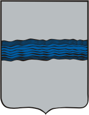 Olekminsk (Yakutia), coat of arms (1790)